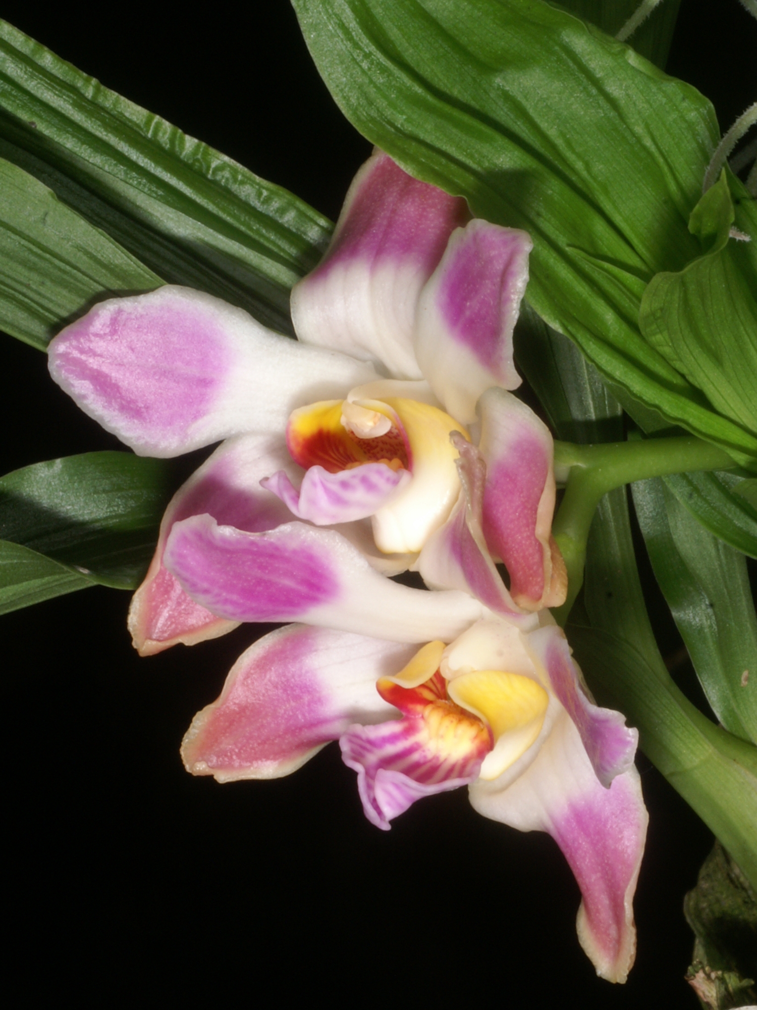 Chysis limminghei